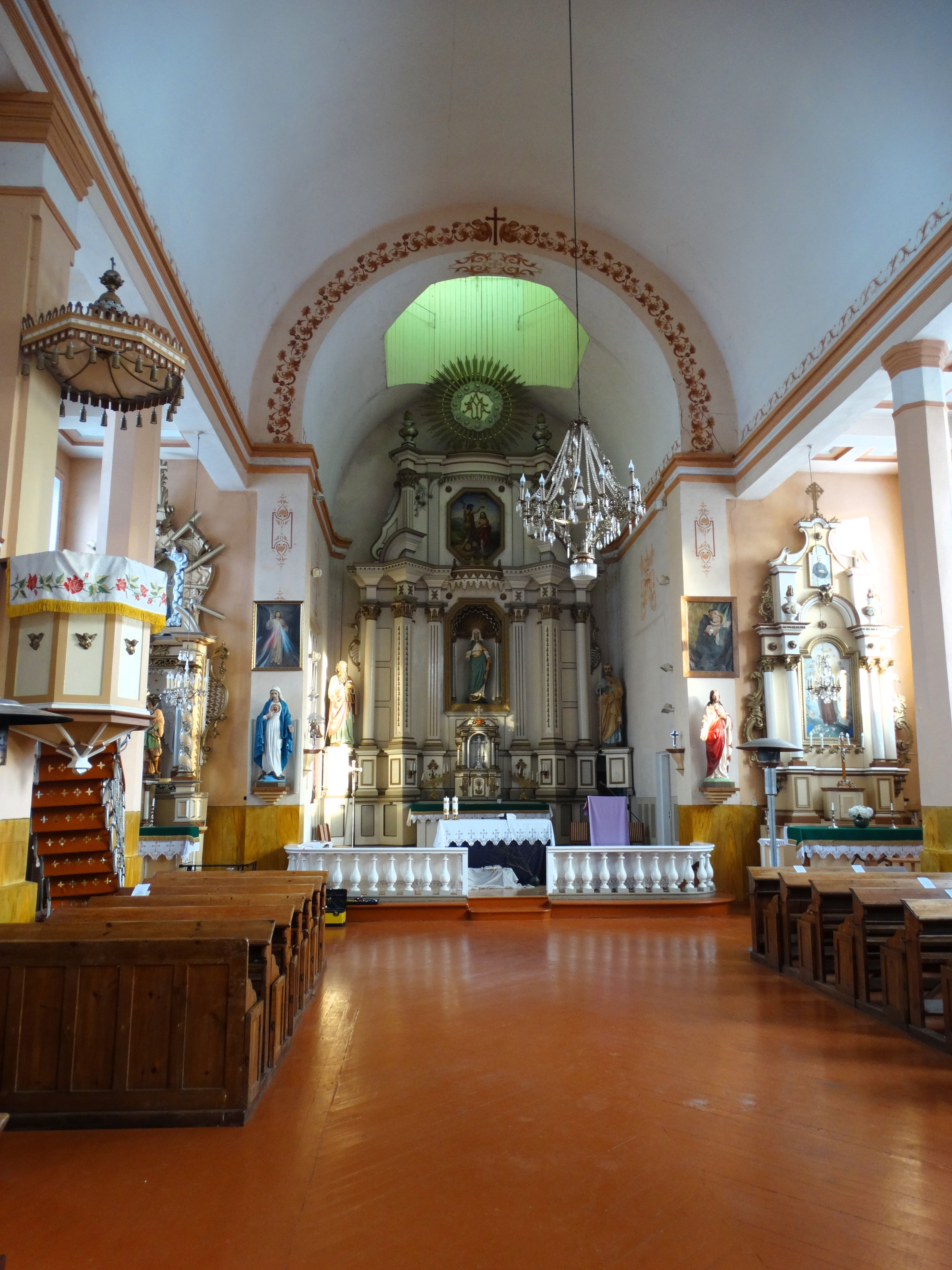 Roman Catholic Church in Išlaužas, interior, Prienai district, Lithuania